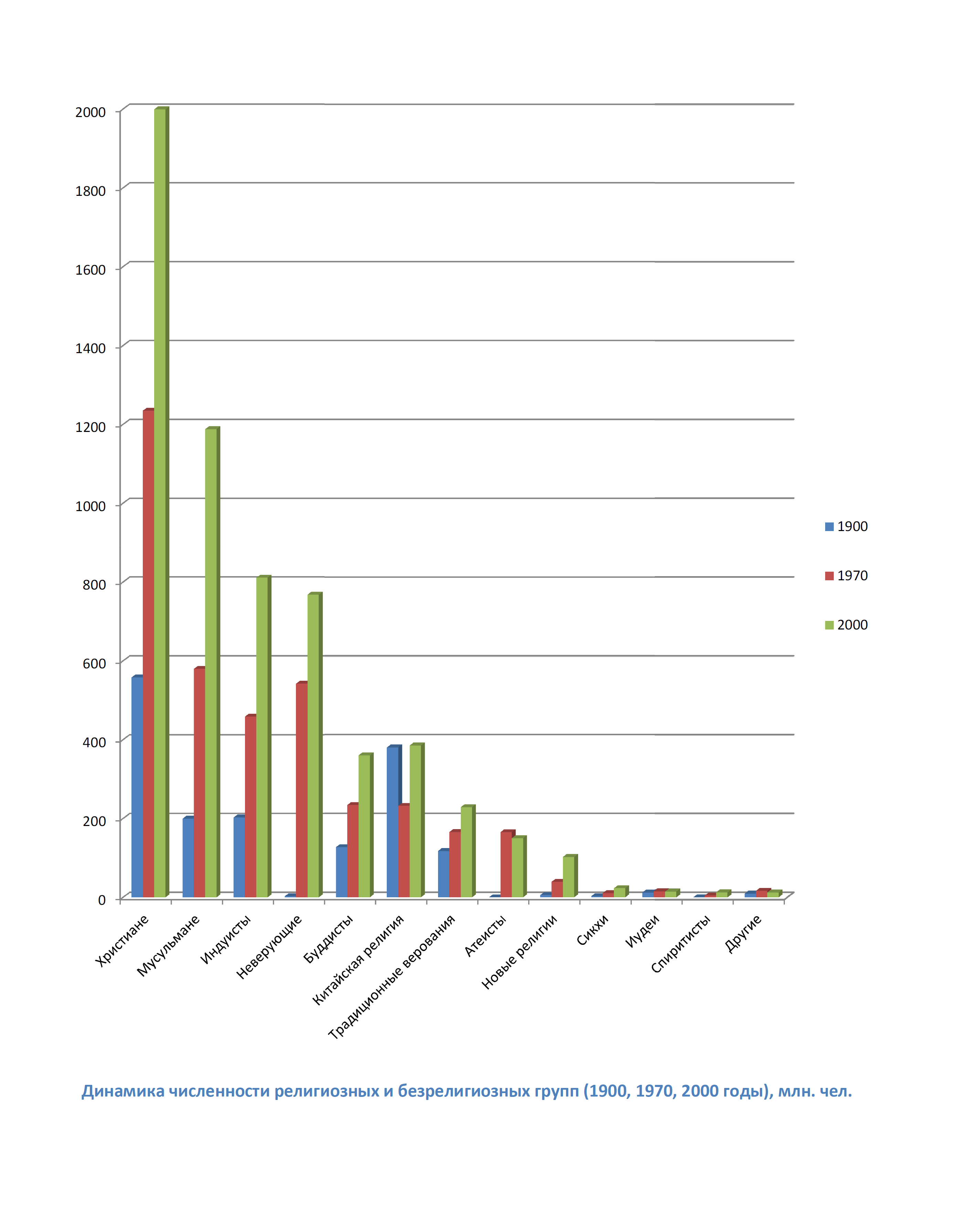 Dynamics of religious and non-religious groups of more than 10 million people (1900, 1970, 2000), million people.